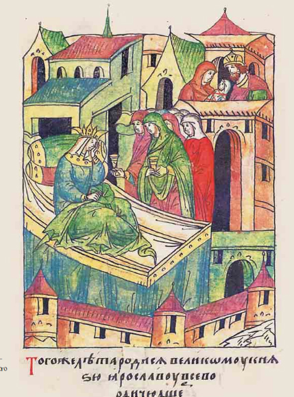 Teodosia Igorevna, wife of Yaroslav III having Maria Yaroslavna (1240)